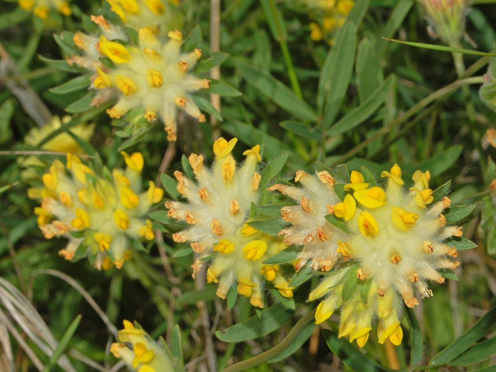 Anthyllis vulneraria var. vulneraria - Pragelato, Torino, Italy